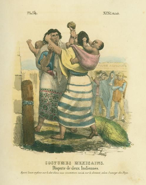 Dispute de deux Indienees from the book Costumes civils, militaires et réligieux du Mexique (Belgium, 1828)